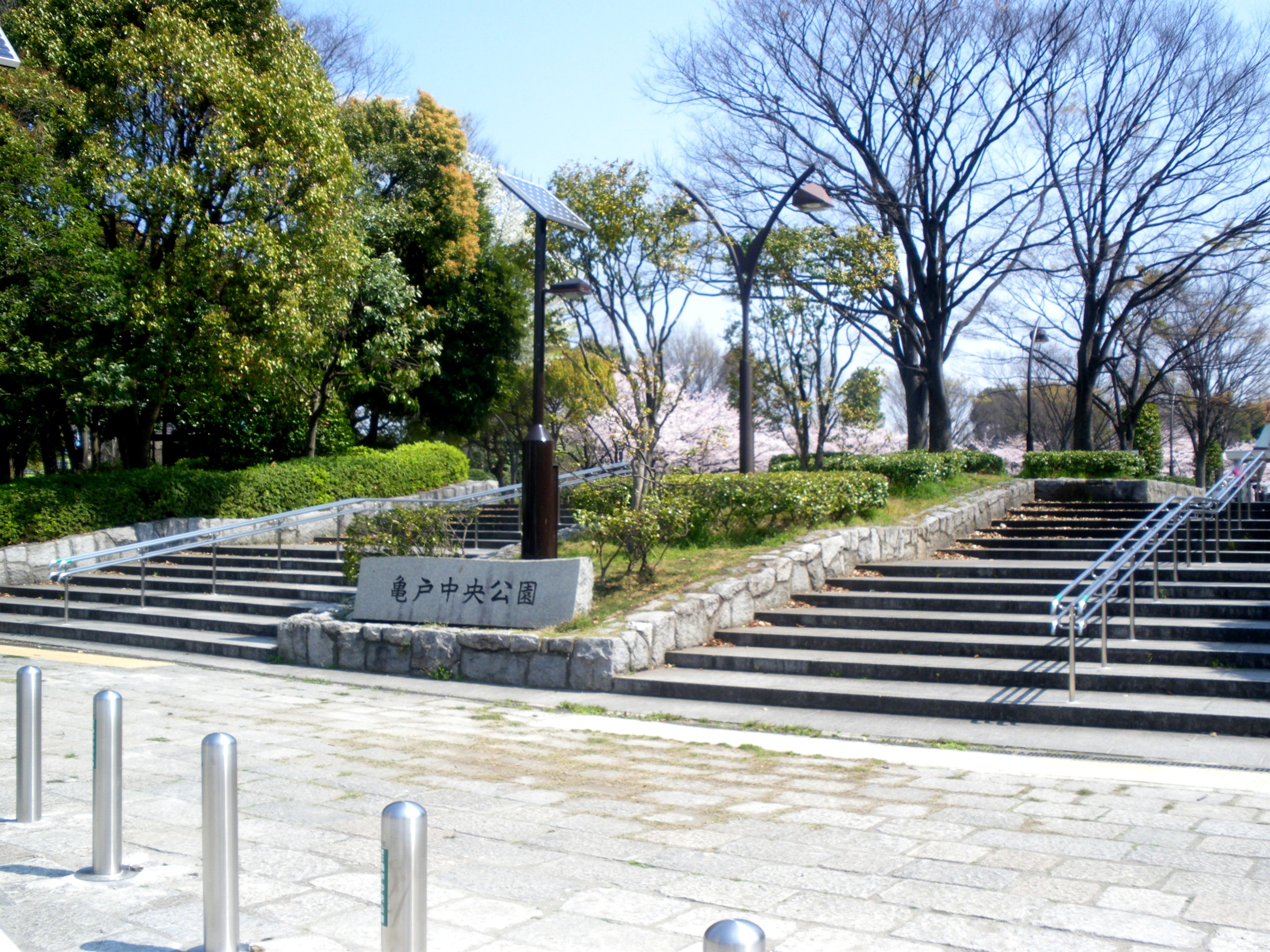 A photo of an entrance of Kameido Chuo Park,Koto-ku,Tokyo,Japan.